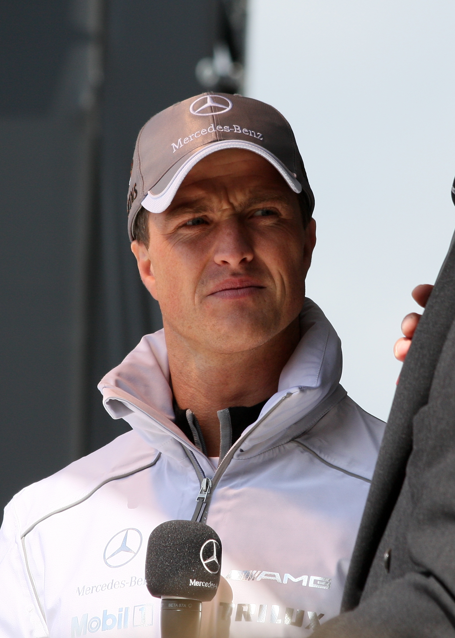 Ralf Schumacher at the Hockenheimring 2008